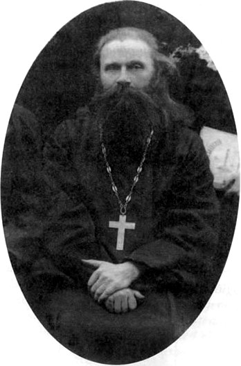 Michael Bleive (1873-1919), Estonian orthodox priest and martyr